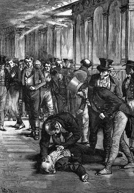 A Print of the shooting of the prime minister, Spencer Perceval, in the House of Commons, 11 May 1812 Cassell's Illustrated History of England Vol.5 (1909) [1] author: Walter Stanley Britteny 1861-1908